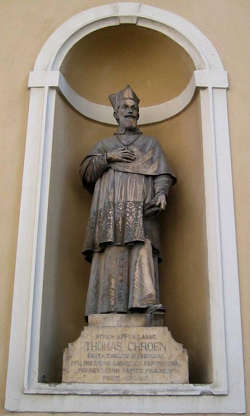 Tomaž Hren, Bishop of Ljubljana. Sculpture in the wall of the Ljubljana Cathedral. Sandstone, 1913. Author: Sculpture (1913): Ivan Pengov (1879-1932) Photo (April 2006): Ziga